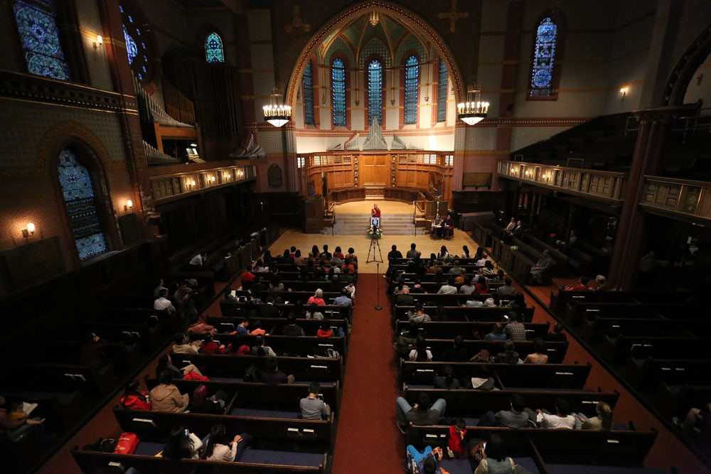 Lecture at Yale by Khenpo Sodagye